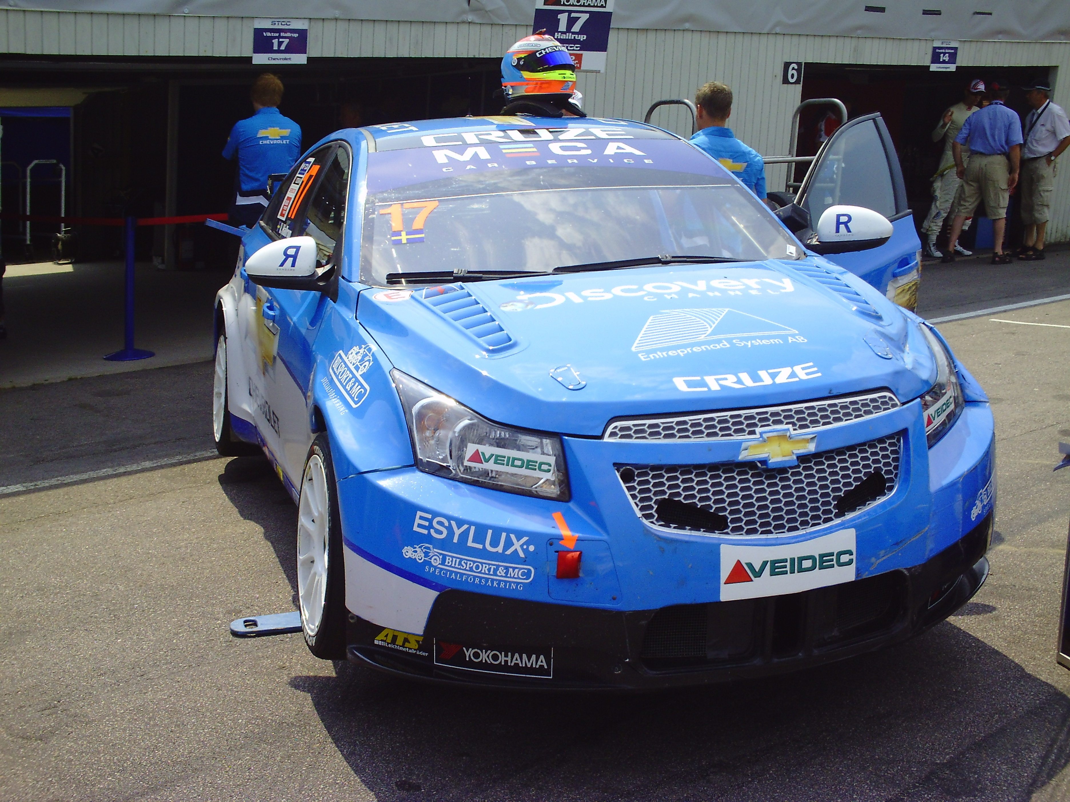 Viktor Hallrup's Chevrolet Cruze in Swedish Touring Car Championship at Falkenbergs Motorbana 2010.